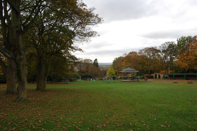 Saltwell Park, towards the bandstand Some drainage work looks to be ongoing towards the bottom of the slope